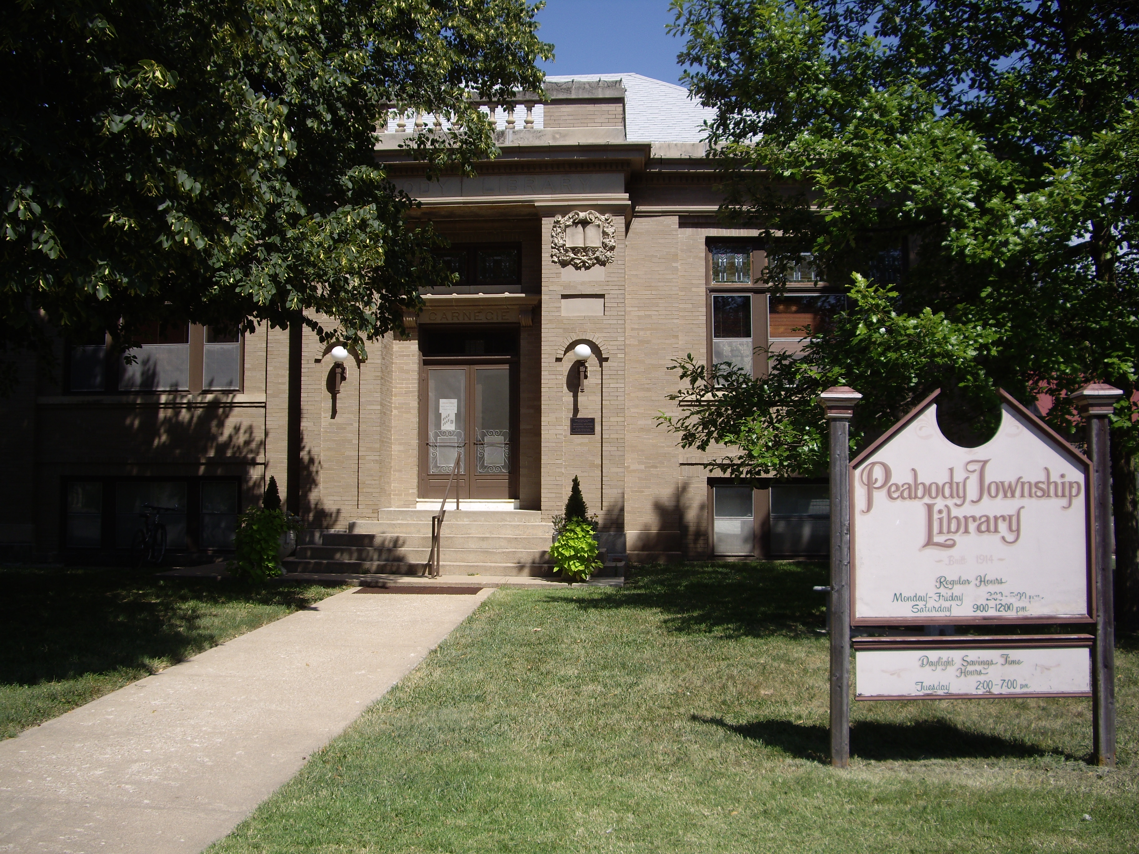 Historic 1914 Peabody Township Carnegie Library, 214 N Walnut St, Peabody, Kansas, 666866, USA. Looking east. Photo by Steve Meirowsky on August 4, 2010.